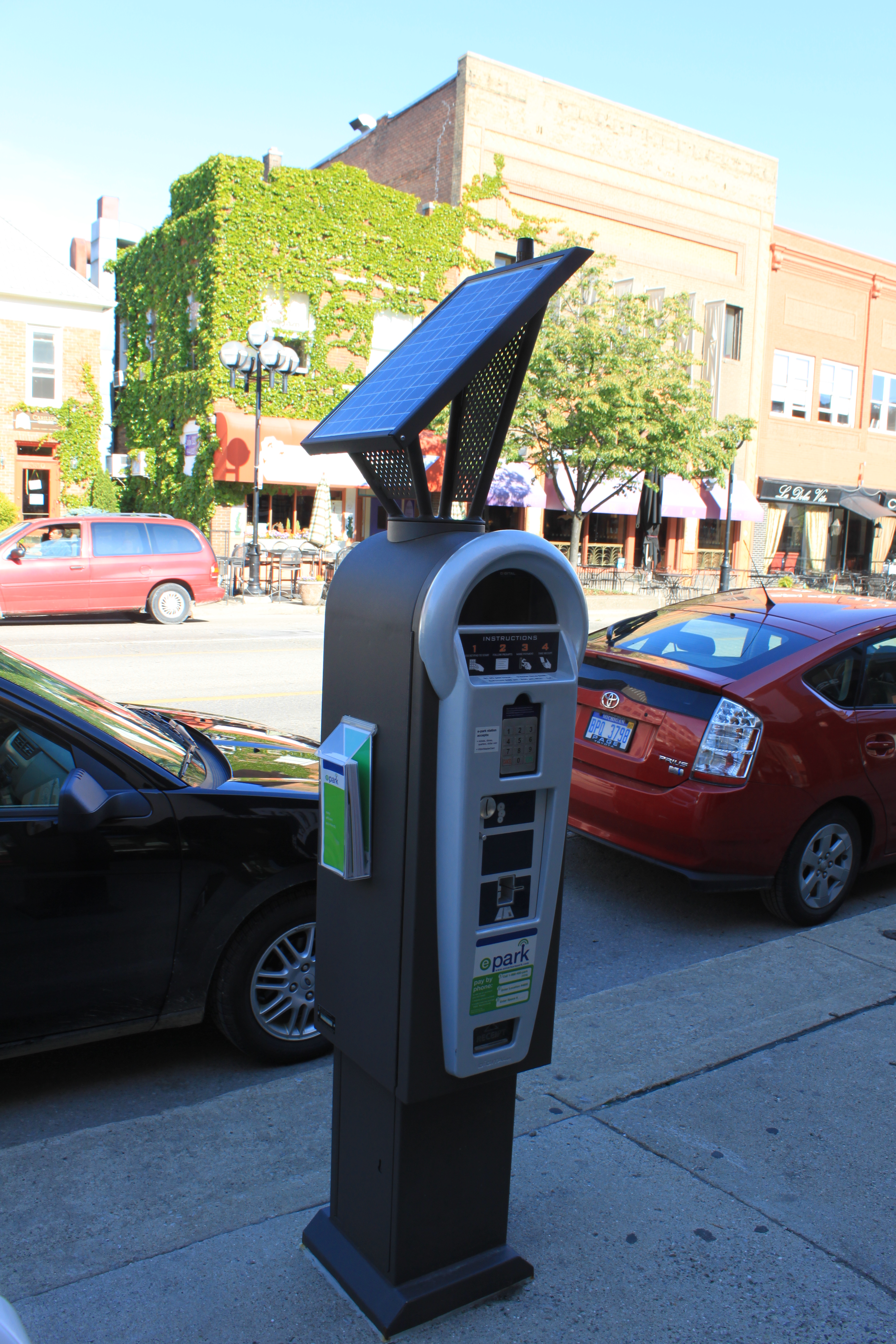 Multi-space parking meter, Main street, Ann Arbor Michigan